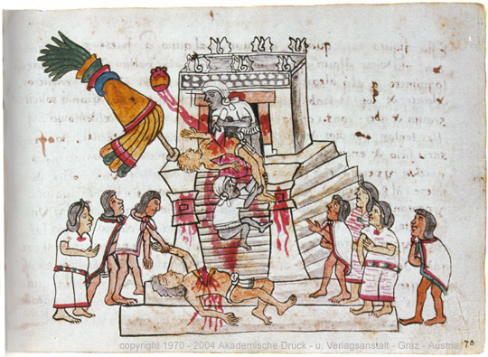 Aztec ritual human sacrifice portrayed in the page 141 (folio 70r) of the Codex Magliabechiano..